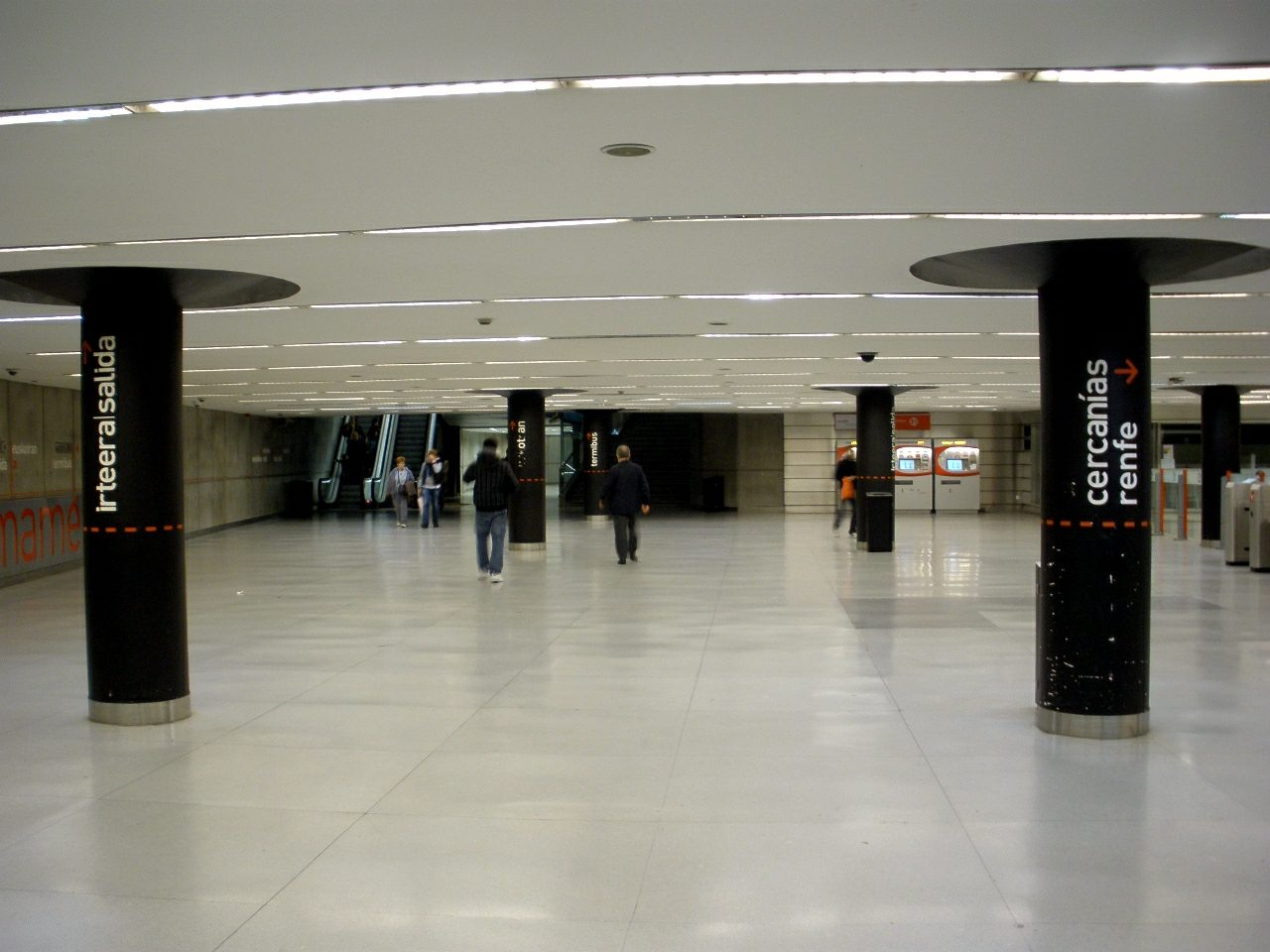 Estación de Metro y Renfe Cercanías de San Mamés, en Bilbao